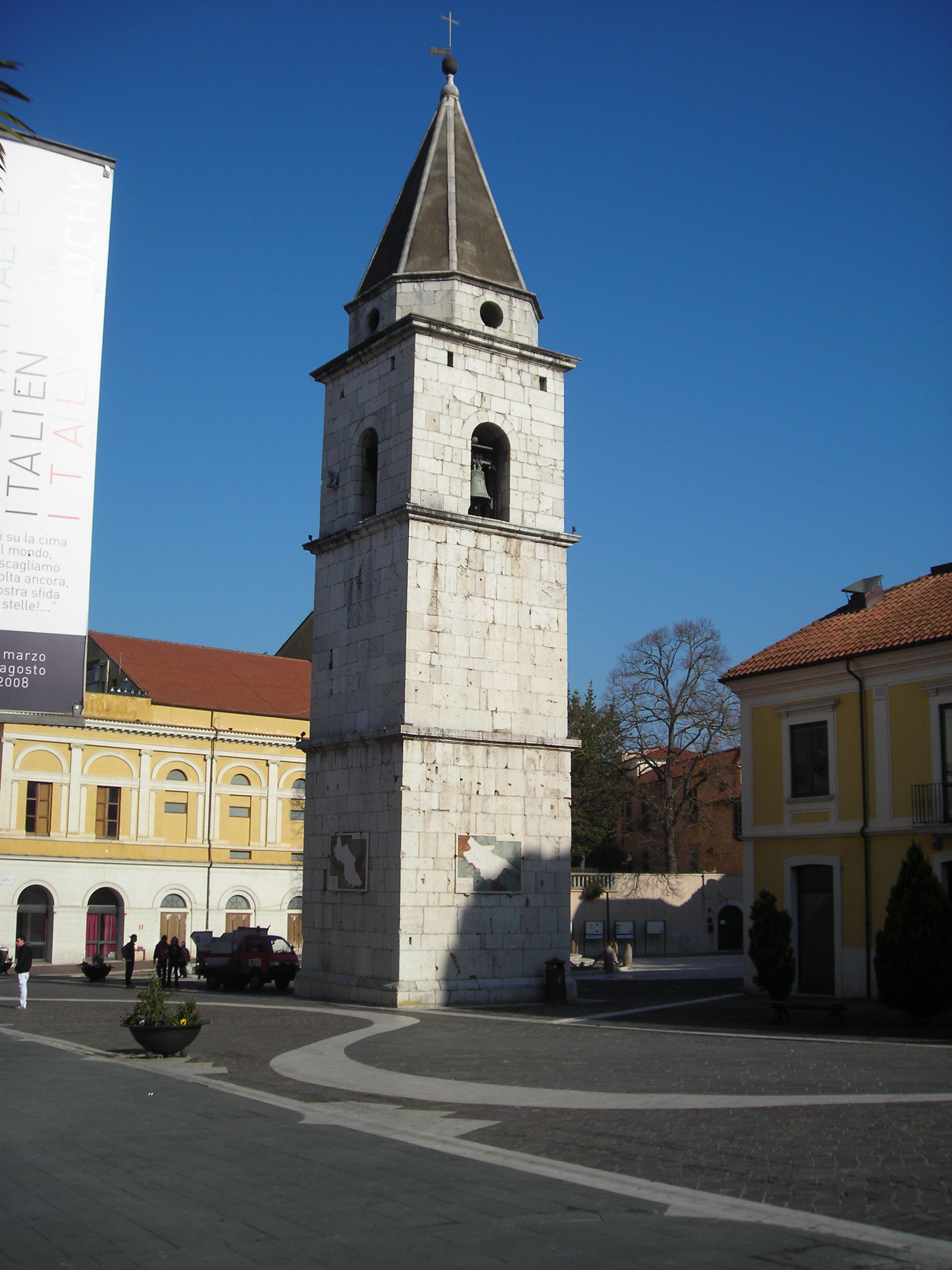 The bell tower of the Church of Santa Sofia, Benevento, Italy